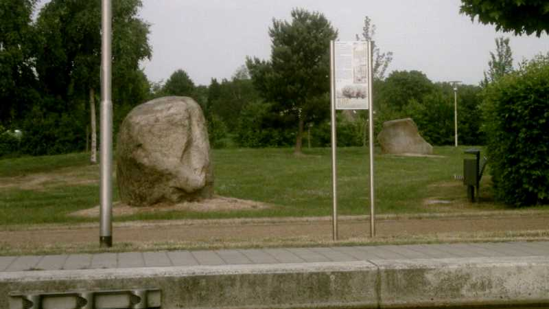 Anatols Steinkreis, a circular setting of large standing stones in Robend City Park, Viersen, Germany.